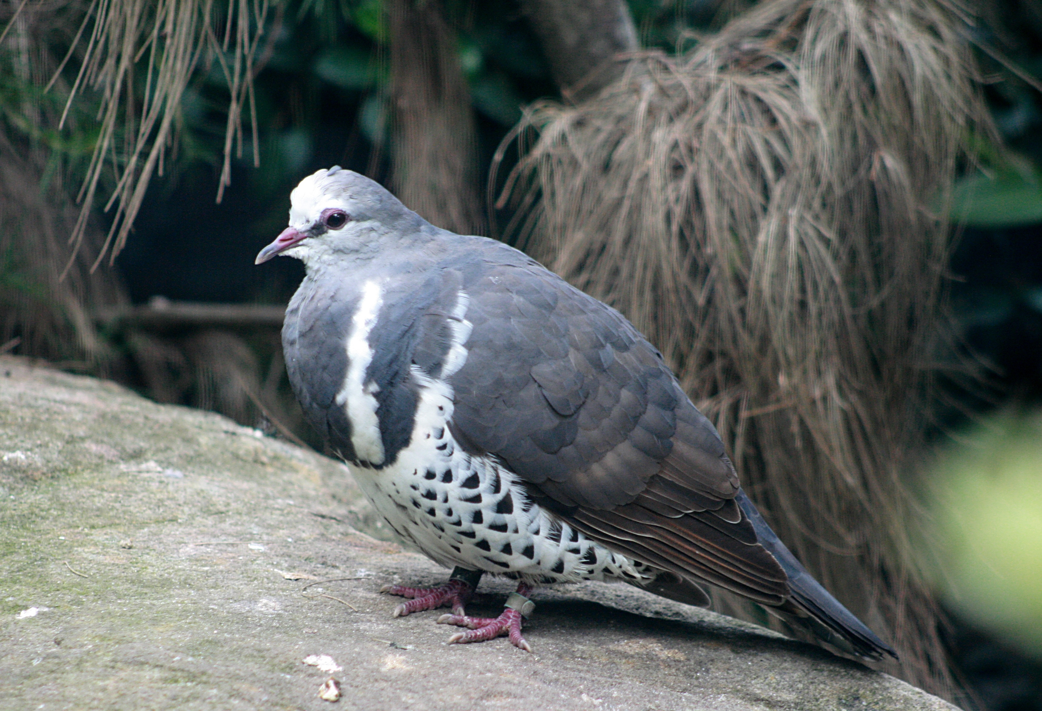 A Wonga Pigeon (Leucosarcia melanoleuca) at Taronga Zoo, Sydney, NSW, Australia.